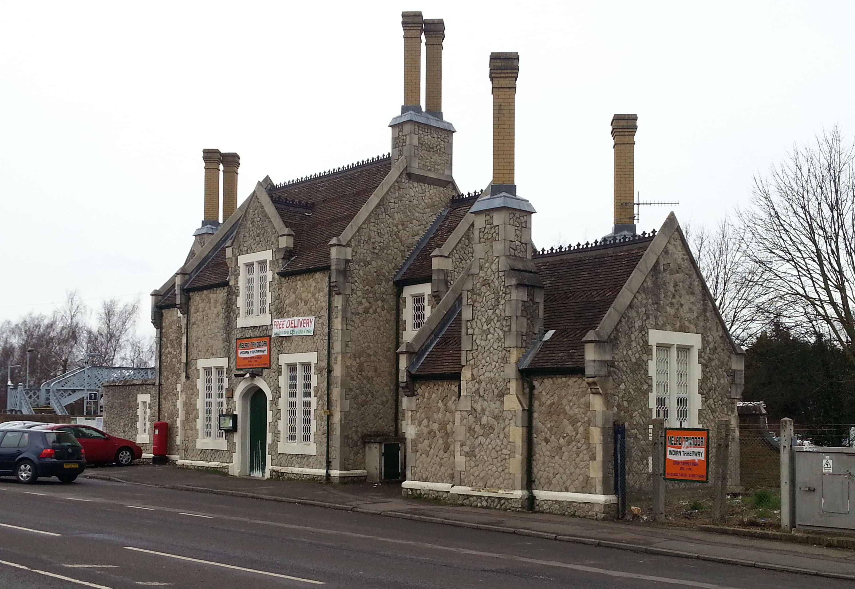 The main station building at Aylesford Railway Station, Kent, UK.